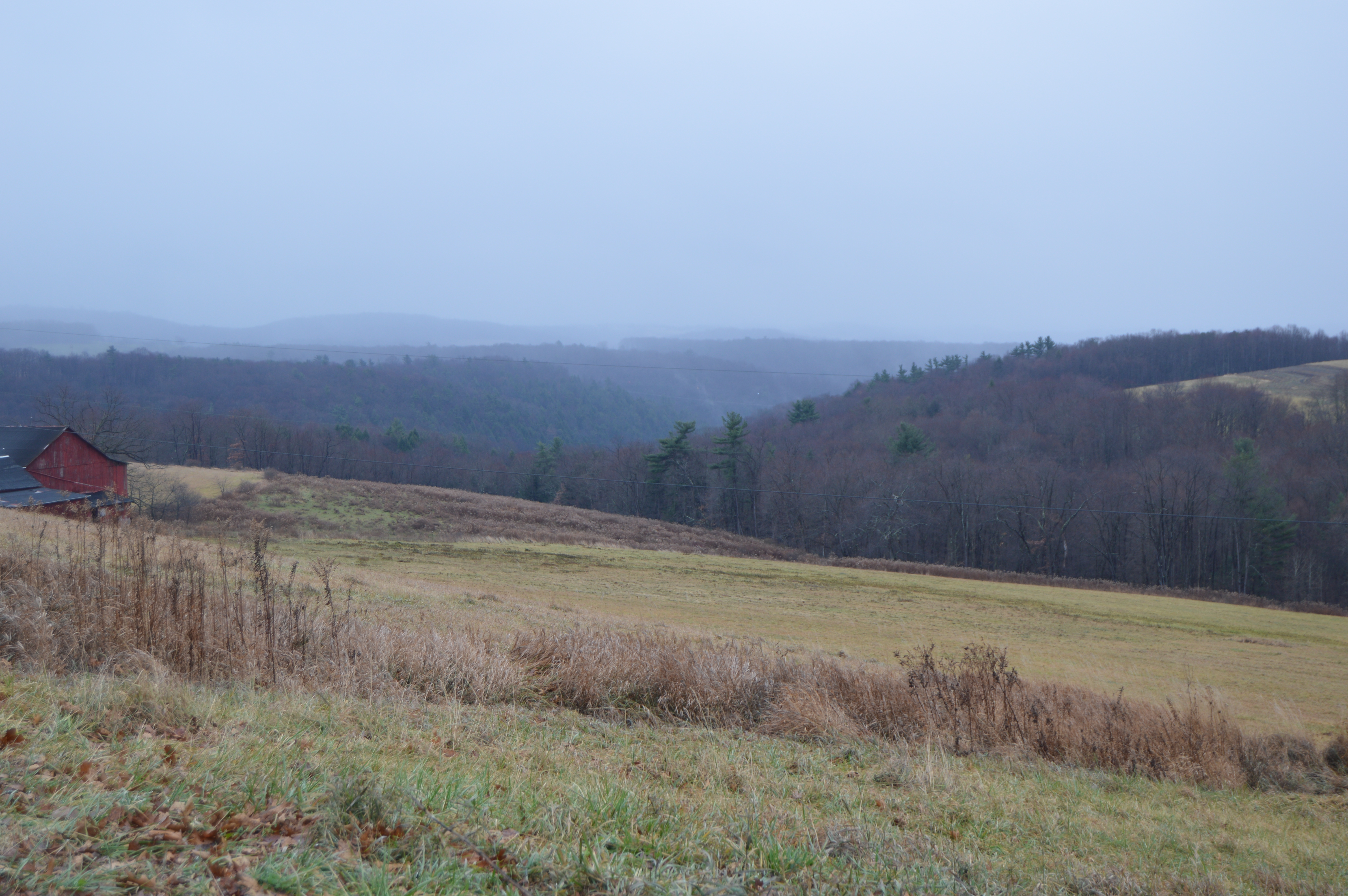 Looking southeast from Pennsylvania Route 861 east of Smithland in Porter Township, Clarion County, Pennsylvania, United States.